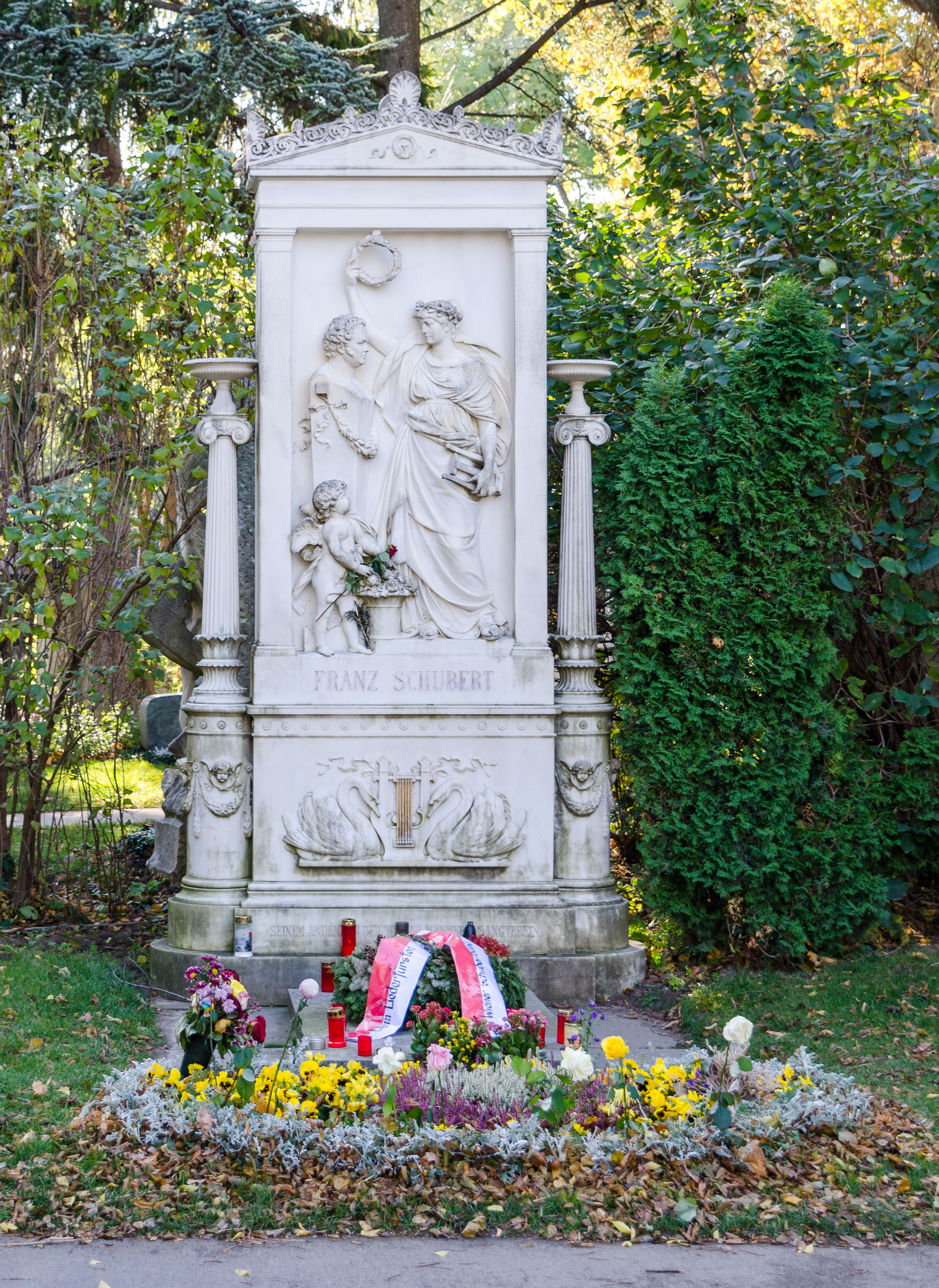 Vienna (Austria) – Central Cemetery – grave of Franz Schubert